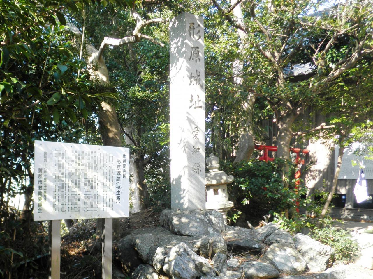 The site of Katahara Castle in Gamagōri, Aichi.